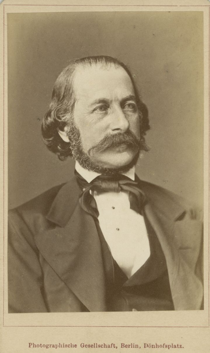 Artist: Photographische Gesellschaft, Berlin Date/place: Unknown date/Berlin Subject: Ferdinand Gumbert Medium: Photographic posetiv Notes: German singingmaster & composer. Born in Berlin 22.04. 1818 - dead in Berlin06.04. 1896 Original belongs to the Archives at [#//bergenbibliotek.no/digitale-samlinger” Bergen Public Library]